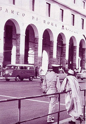 The former Banco di Roma building in downtown Tripoli, Libya - circa 1960s.